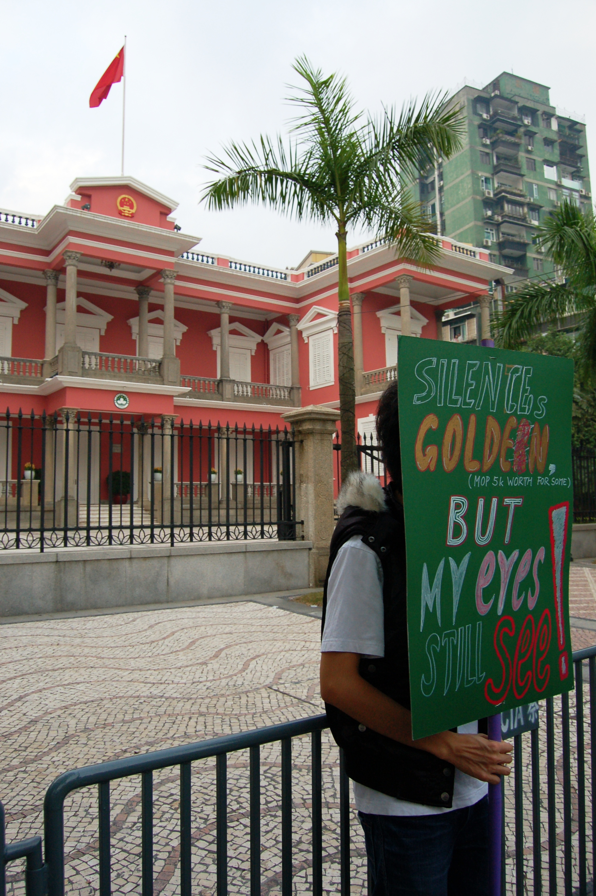 Participant of the demonstration against Macau's Article 23 legislation in front of the Government House